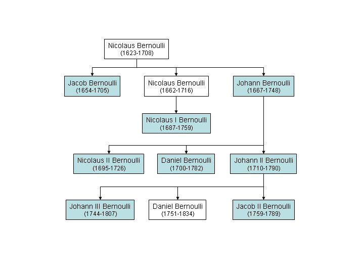 Family tree of Bernoulli family